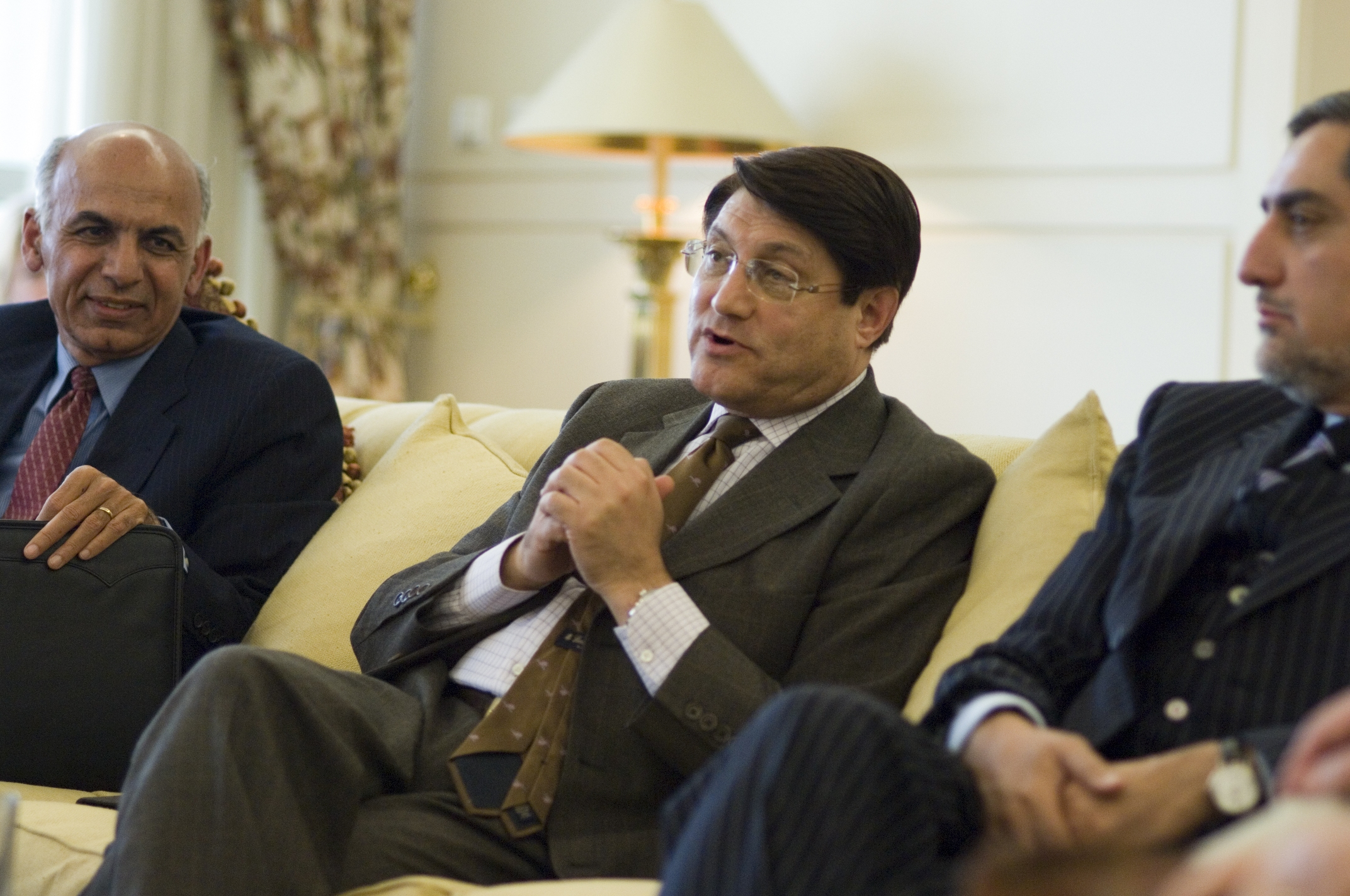 From left to right: Ashraf Ghani Ahmadzai, Anwar ul-Haq Ahadi, Abdullah Abdullah